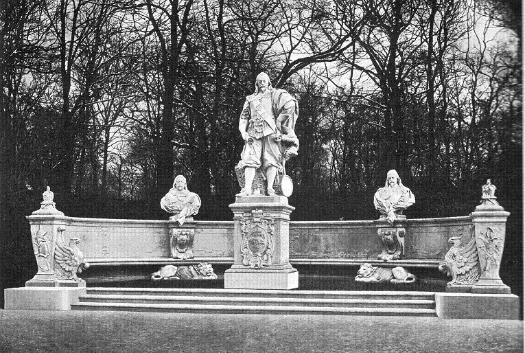 Monument group № 24 in the former Siegesallee in Berlin commemorating Brandenburg’s Margrave and Elector George William (1595–1640). The bust on the left commemorates Colonel Konrad von Burgsdorff, and the bust on the right Chancellor Adam von Schwartzenberg. Sculptor: Cuno von Uechtritz-Steinkirch. The sculpture was unveiled on 23 December 1899.